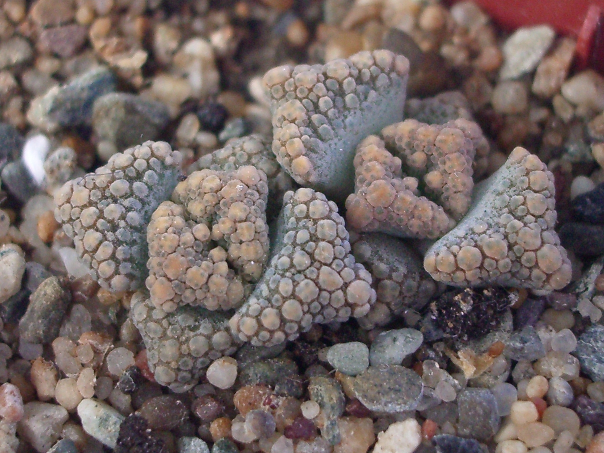 Seedlings (5 months) of Titanopsis calcarea (plant collection of Ivan I. Boldyrev, Berdsk, Russia)